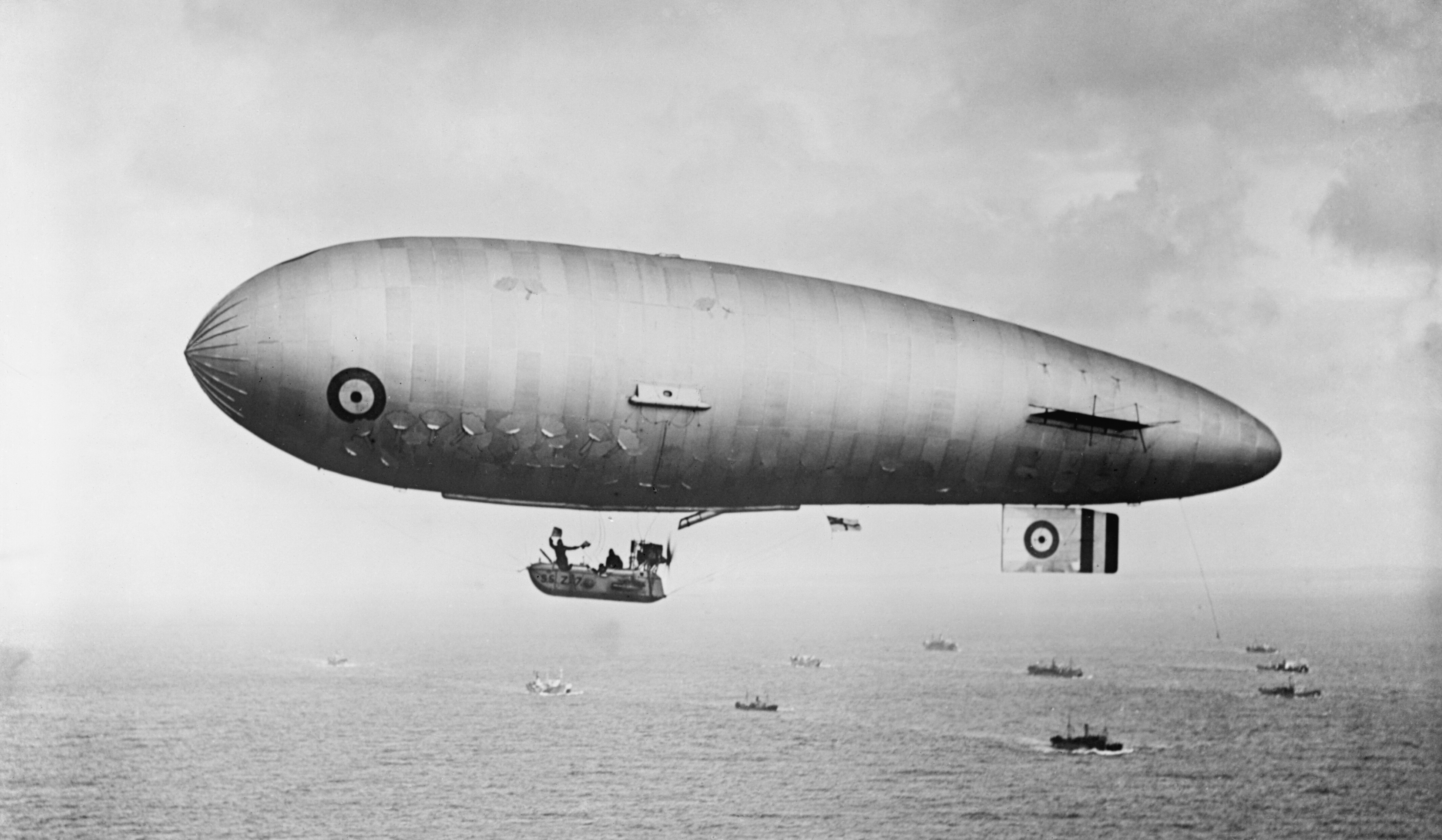 Photograph showing a British Zero Non Rigid Airship (possibly 36 Z 7) escorting a convoy.